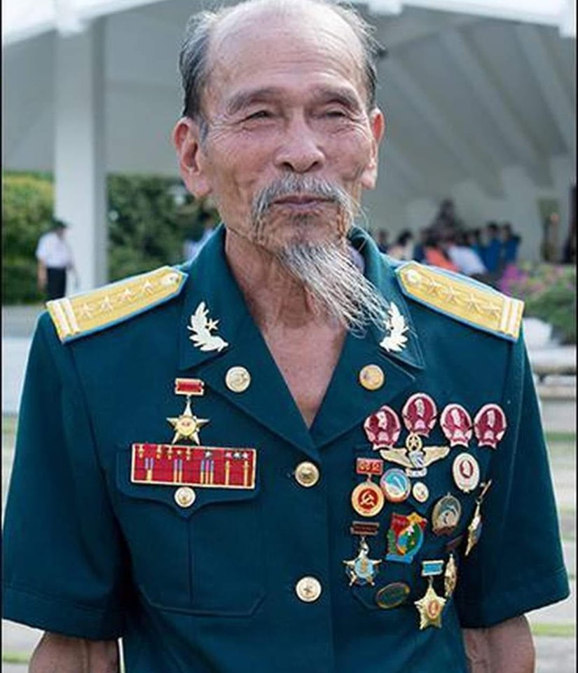 Colonel Nguyen Van Bay (A)